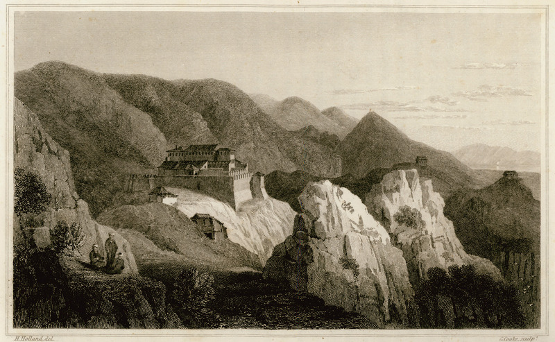 Seraglio of Suli - Holland Sir Henry - 1815